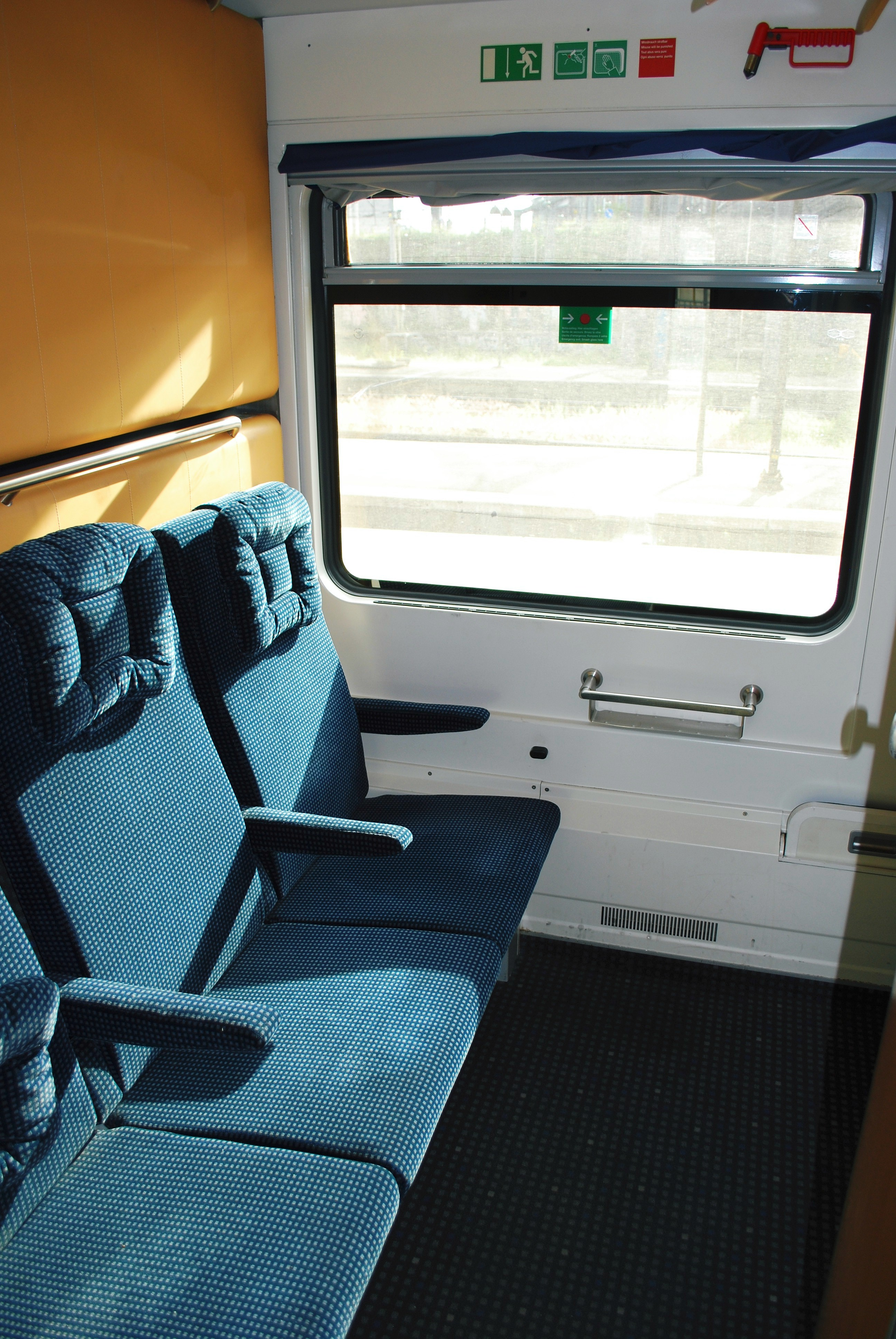 DB 1st Class Sleeper Coach in day mode of "Borealis" sleeper service from Kobenhaven to Koln, 6/10.